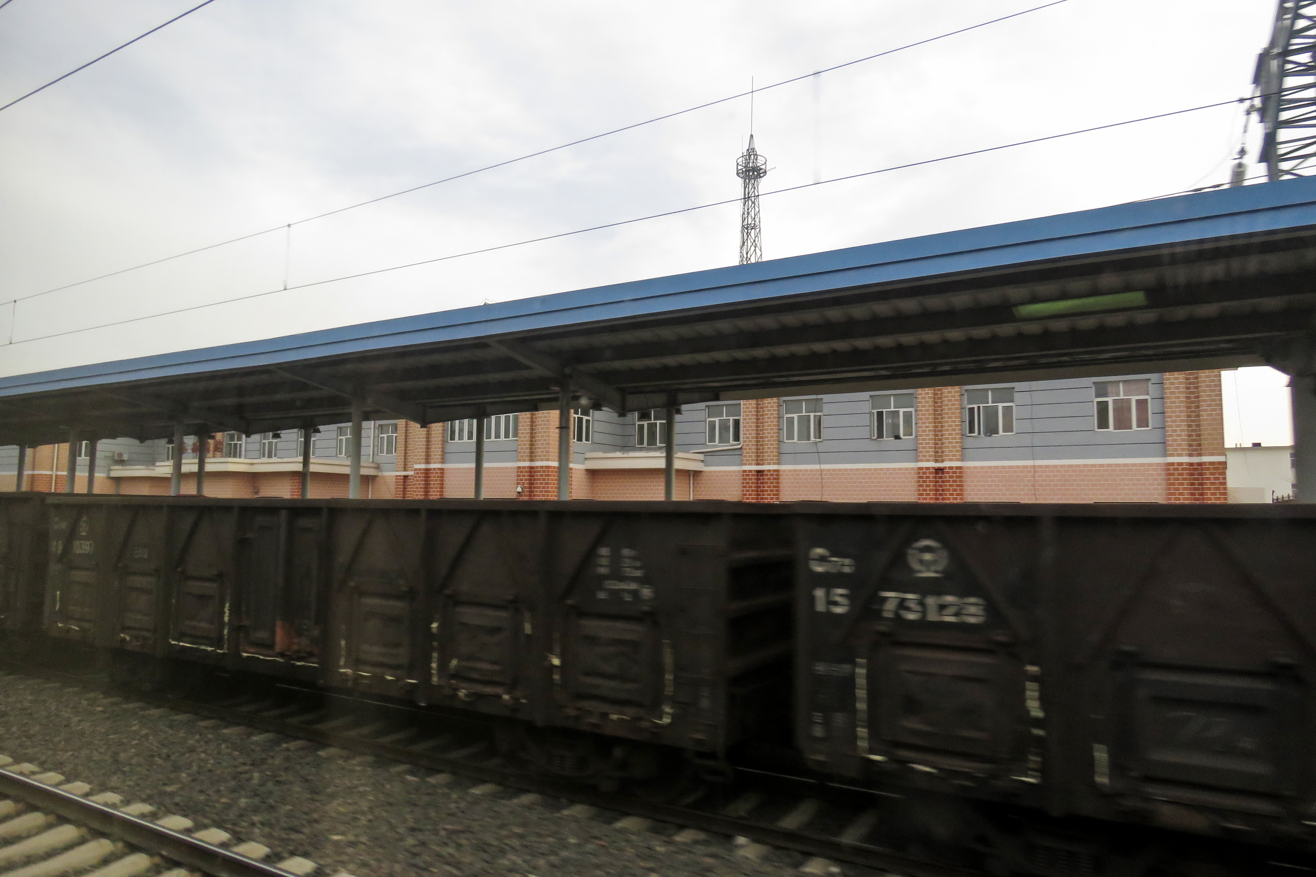 The last one under CR Beijing...